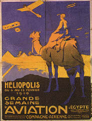 An AD about the international aviation contest in Heliopolis 1910